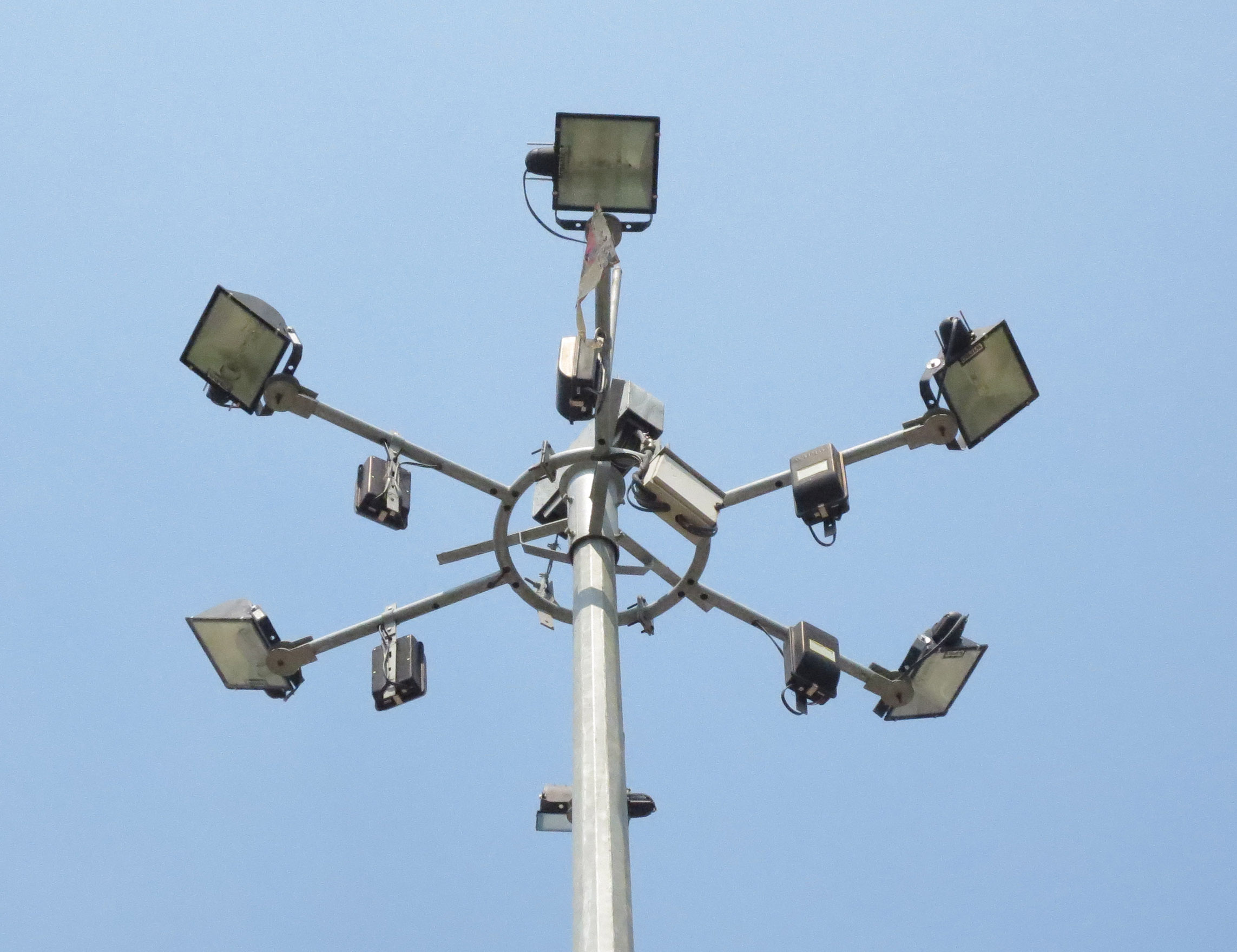 High mast lamp with 6 lamps